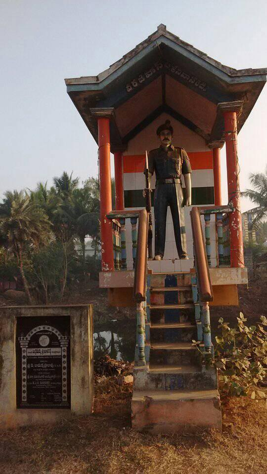 Statue of fallen Indian soldier Burramukku Srinivasa reddy belonging to Nambur village,pedakakani mandal,guntur,andhrapradesh.